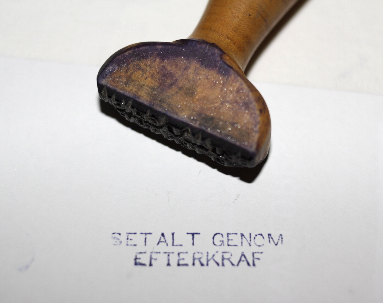 Wood stamp with Swedish text "Betalt genom efterkraf" (